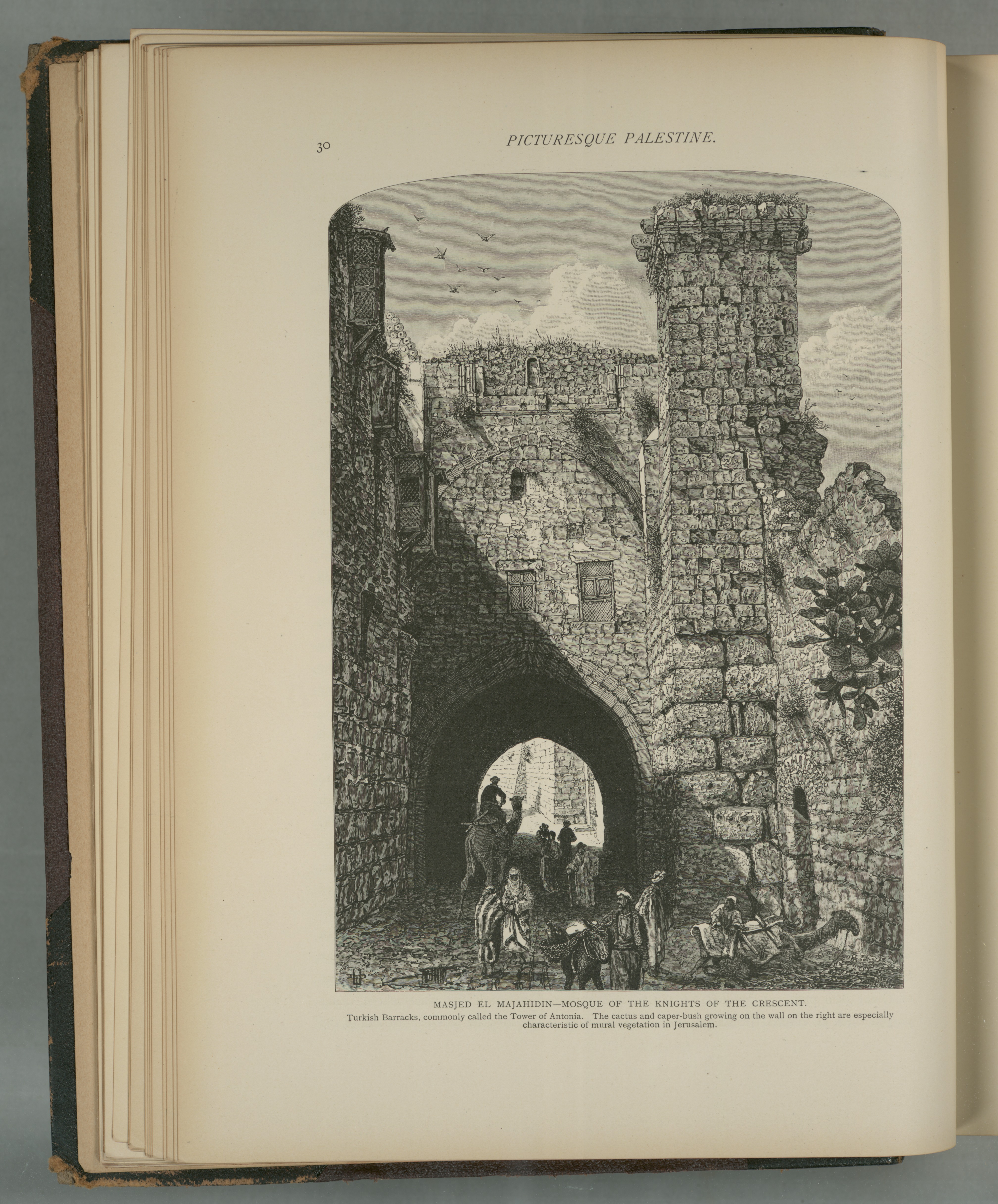 Colonel Wilson, ed.